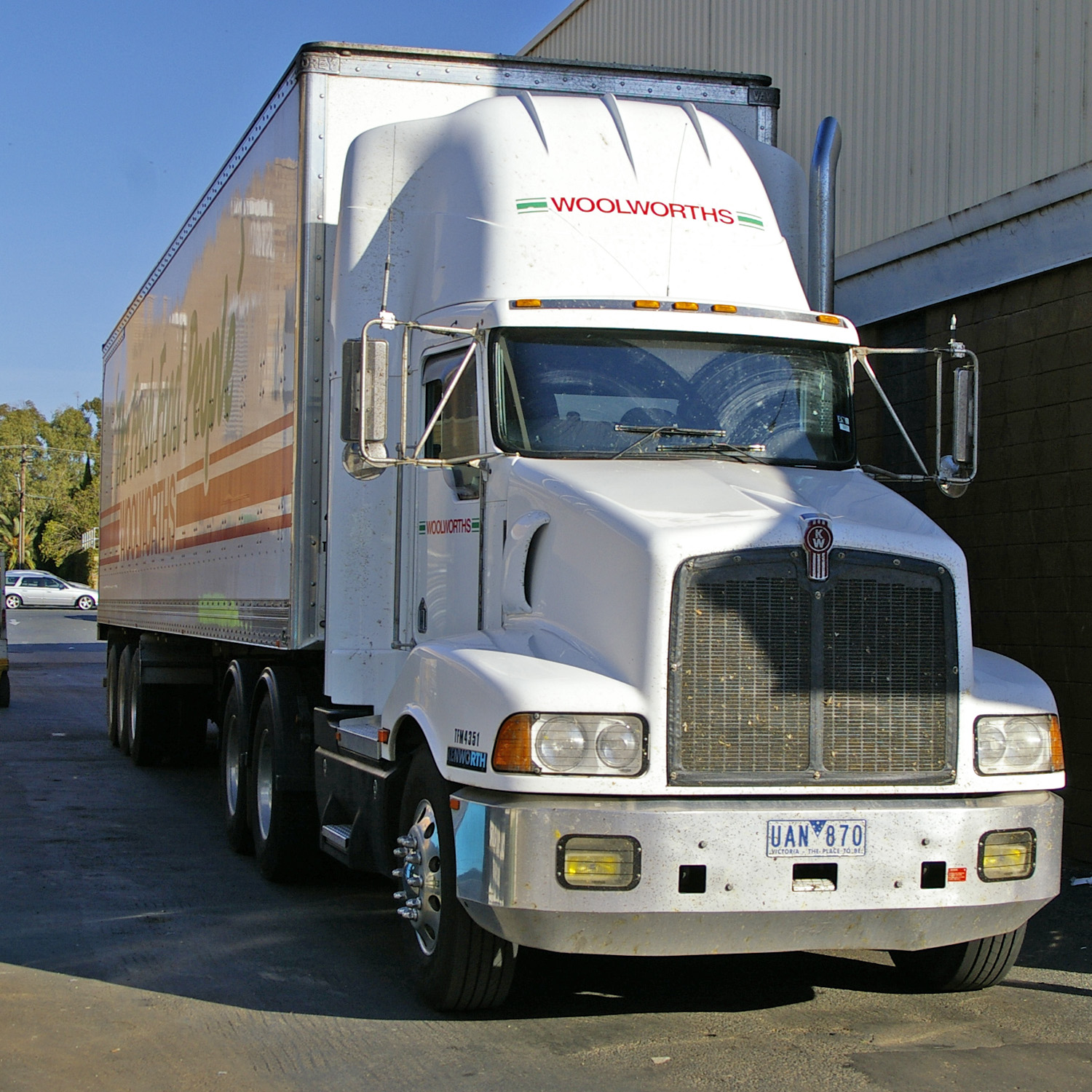 Woolworths transport truck. Kenworth T604